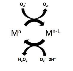 edit of reaction mechanism of dismutation